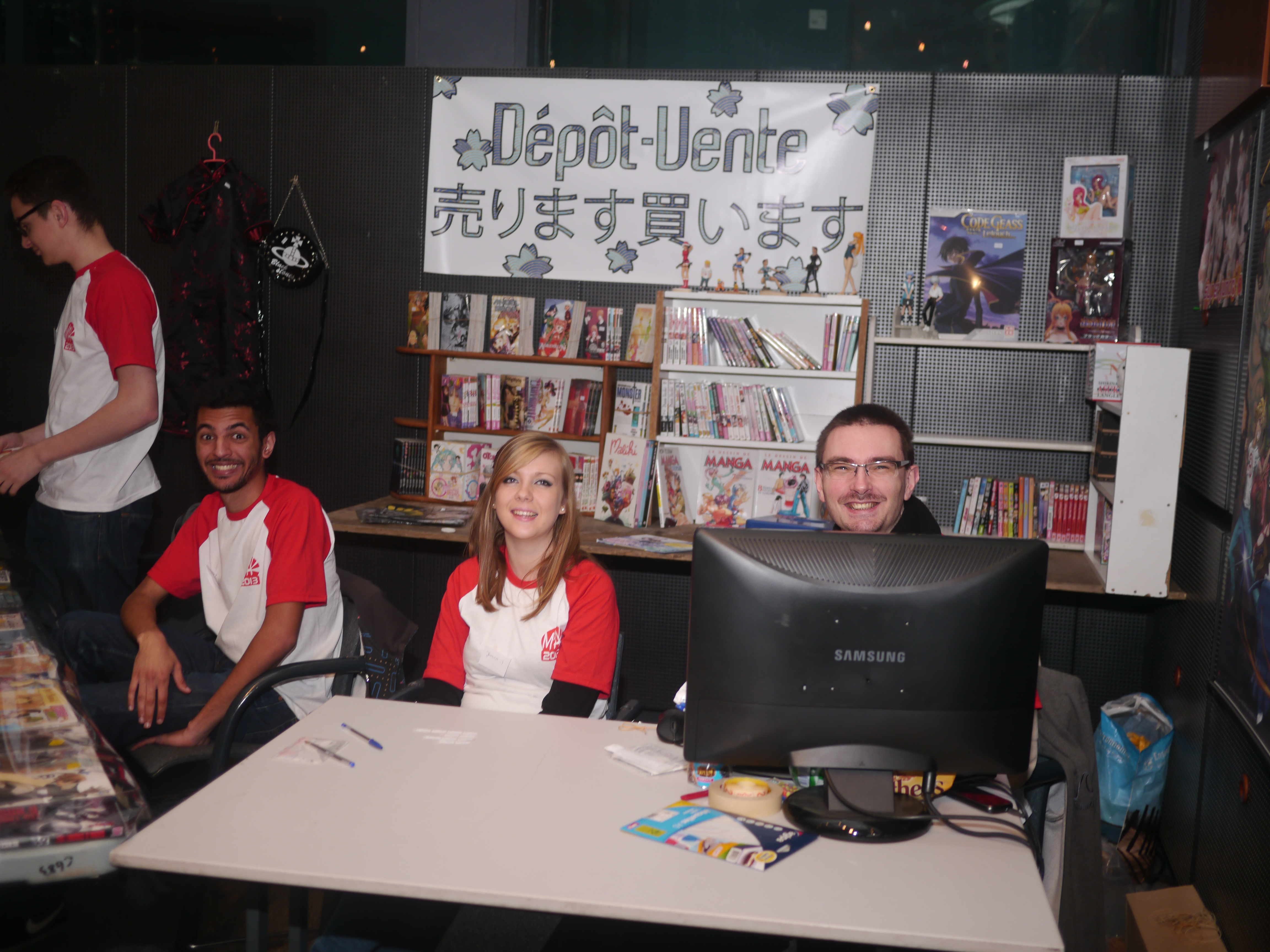 Mang'Azur festival of Toulon - official site